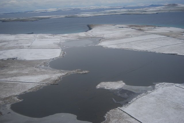 St Tredwell's Loch From the air